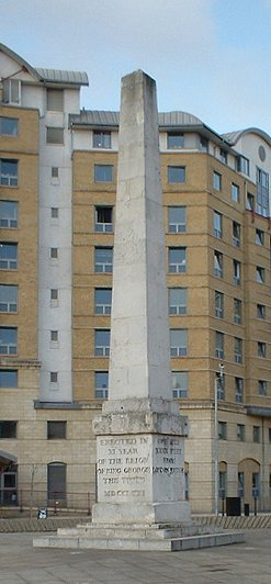 Obelisk at St. George's Circus, St Georges Fields, Elephant and Castle, Southwark, London. Taken by C Ford, 29th February 2004.